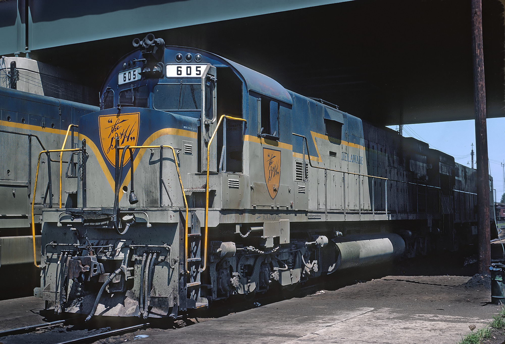 At Bevier St. Yard, Binghamton, NY A Roger Puta photograph